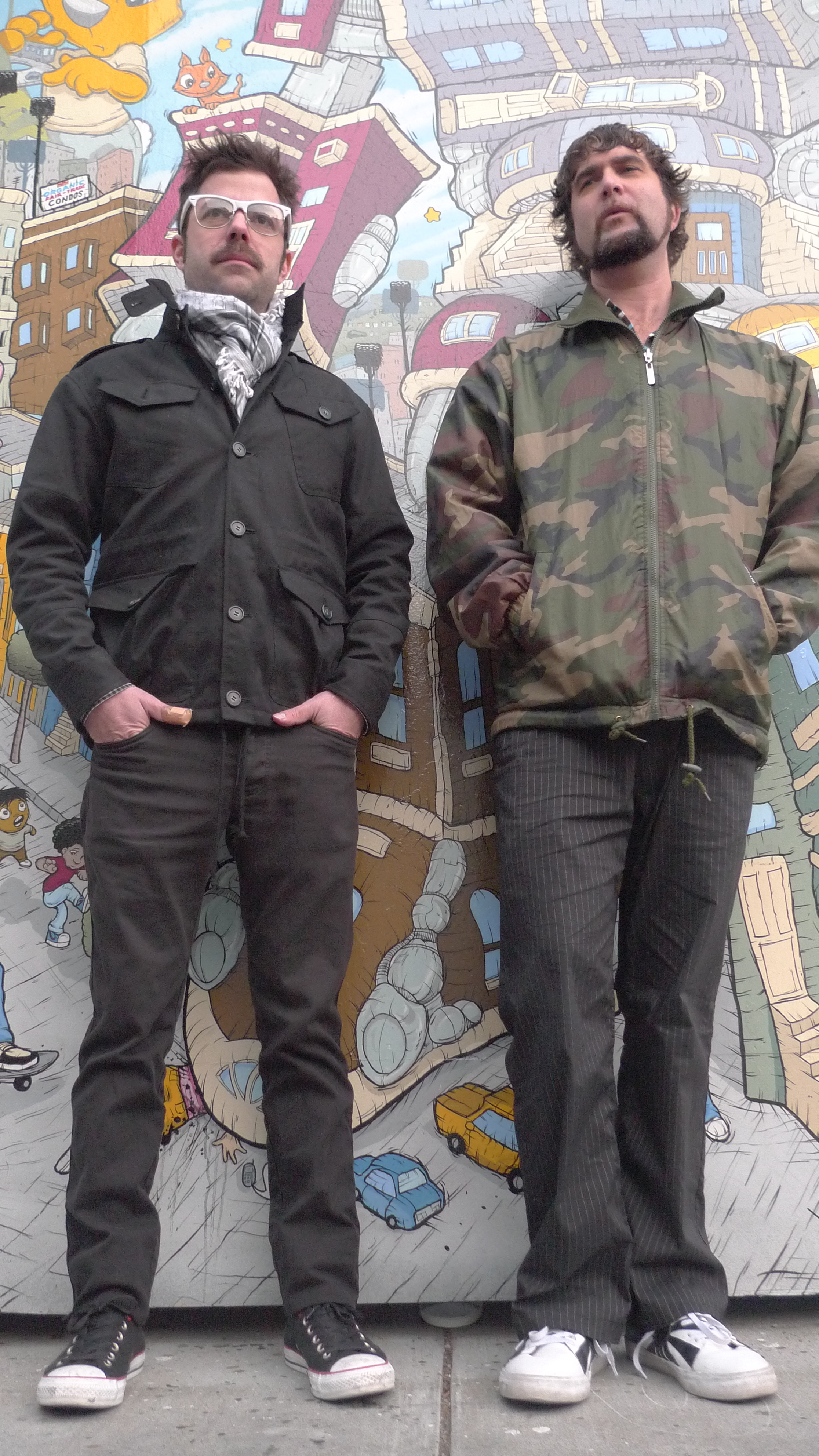 Rondo Brothers Band Shot by Carmelo Sala